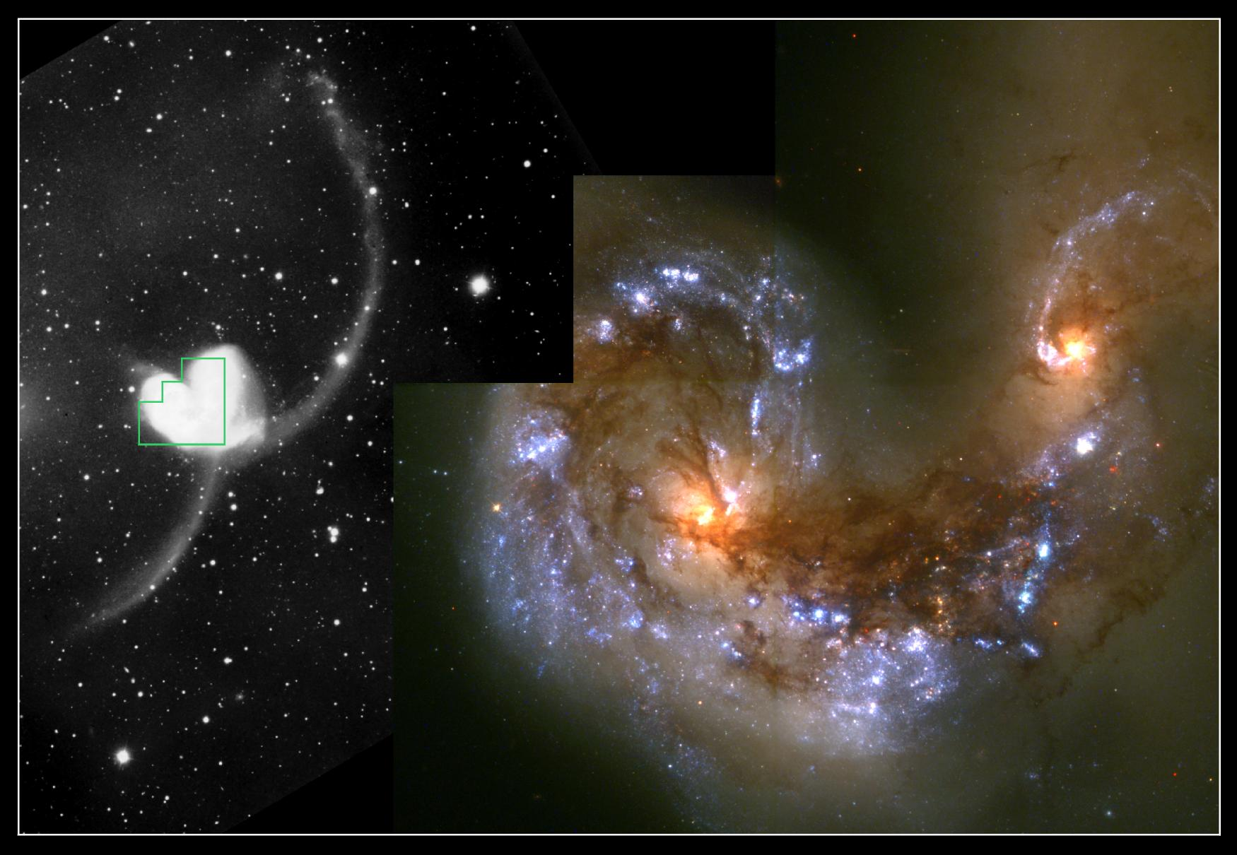 This Hubble Space Telescope image provides a detailed look at a brilliant "fireworks show" at the center of a collision between two galaxies. Hubble has uncovered over 1,000 bright, young star clusters bursting to life as a result of the head-on wreck. [Left] A ground-based telescopic view of the Antennae galaxies (known formally as NGC 4038/4039) - so named because a pair of long tails of luminous matter, formed by the gravitational tidal forces of their encounter, resembles an insect's antennae. The galaxies are located 63 million light-years away in the southern constellation Corvus. [Right] The respective cores of the twin galaxies are the orange blobs, left and right of image center, crisscrossed by filaments of dark dust. A wide band of chaotic dust, called the overlap region, stretches between the cores of the two galaxies. The sweeping spiral- like patterns, traced by bright blue star clusters, shows the result of a firestorm of star birth activity which was triggered by the collision. This natural-color image is a composite of four separately filtered images taken with the Wide Field Planetary Camera 2 (WFPC2), on January 20, 1996. Resolution is 15 light-years per pixel (picture element). Credit: Brad Whitmore (STScI) and NASA